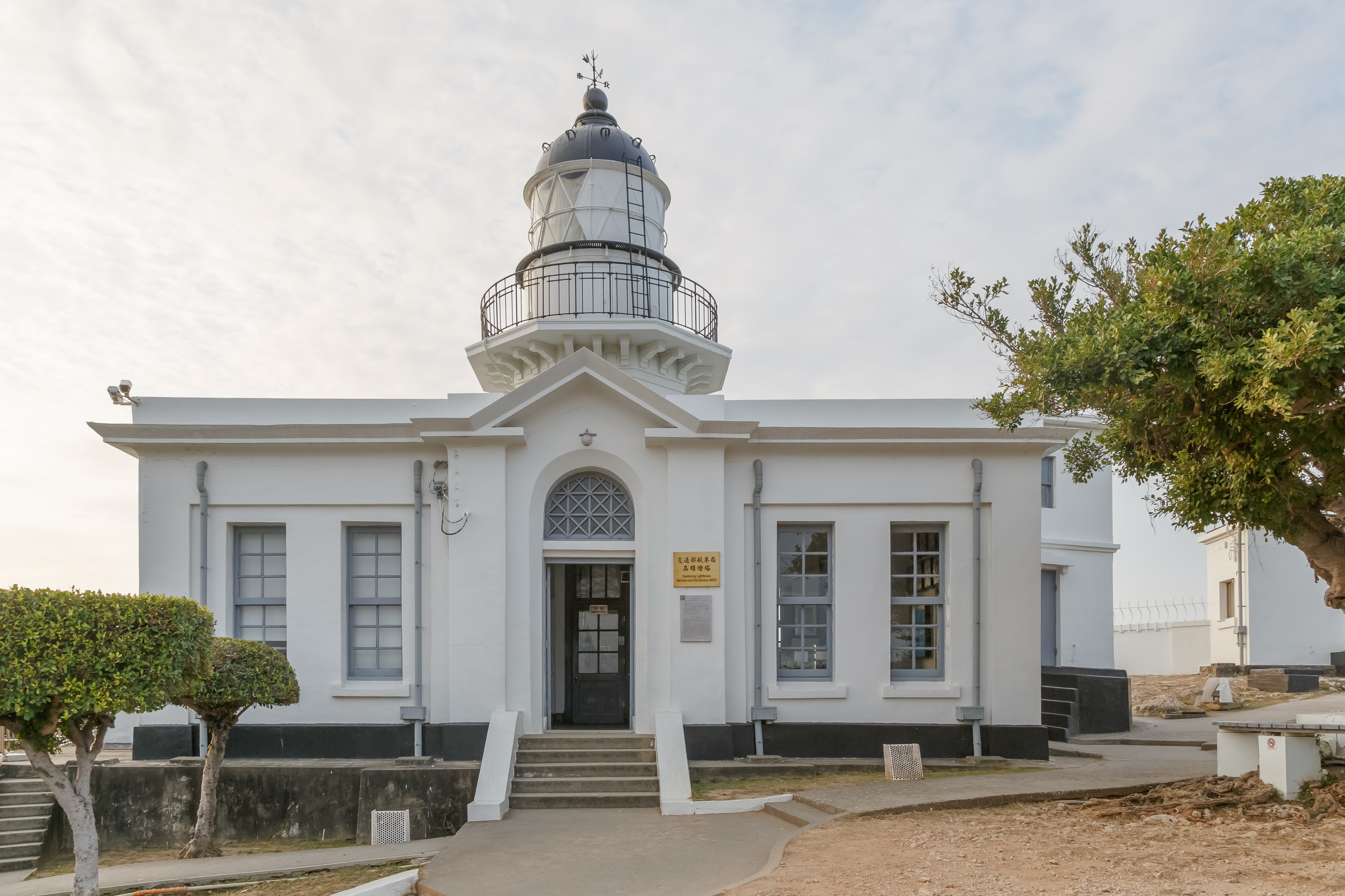 Kaohsiung, Taiwan: Kaohsiung Lighthouse.